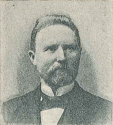 Swedish politician August Henricson i Karlslund. From page 11 of an album featuring portraits of all the members of the second chamber of the Swedish parliament (Sveriges riksdag) elected in 1897.